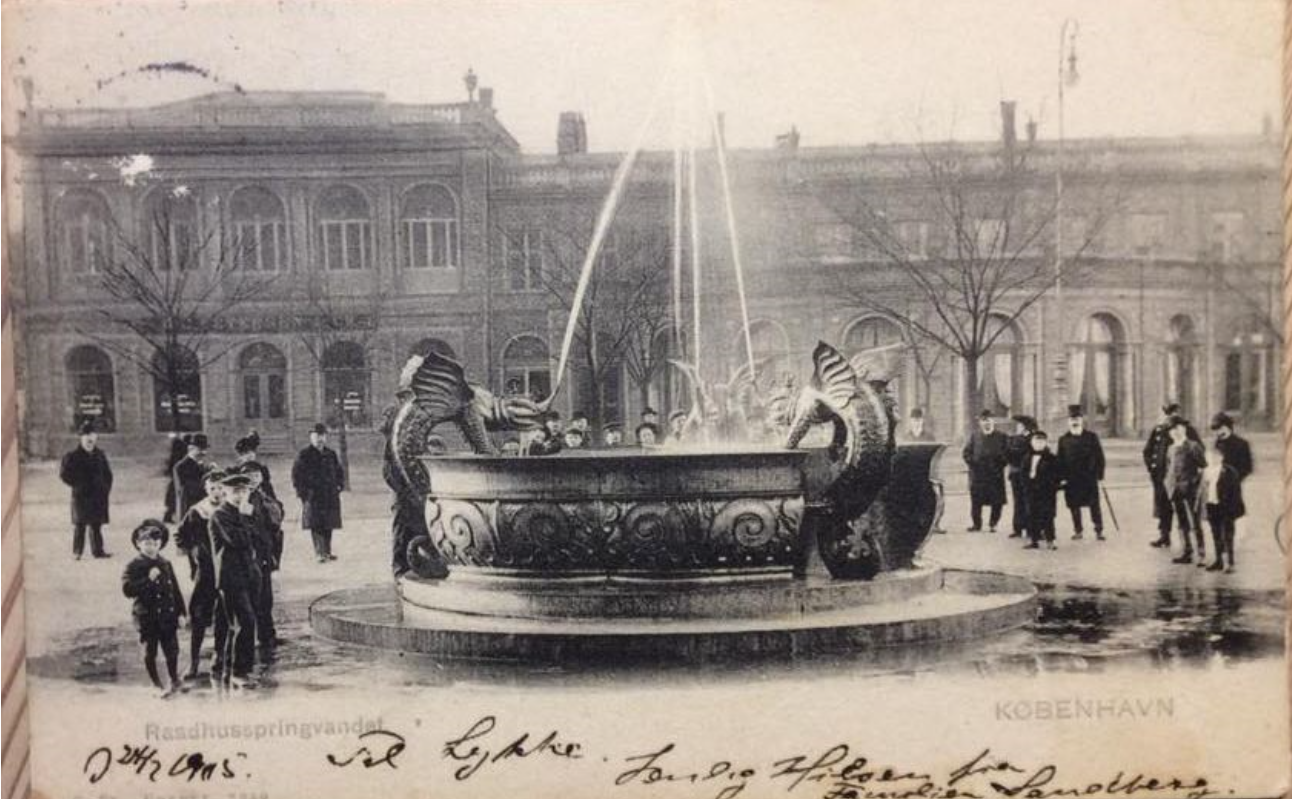 Rådhusspringvandet - aka the Dragon Foundain without the Dragon - in Copenhagen, Denmark